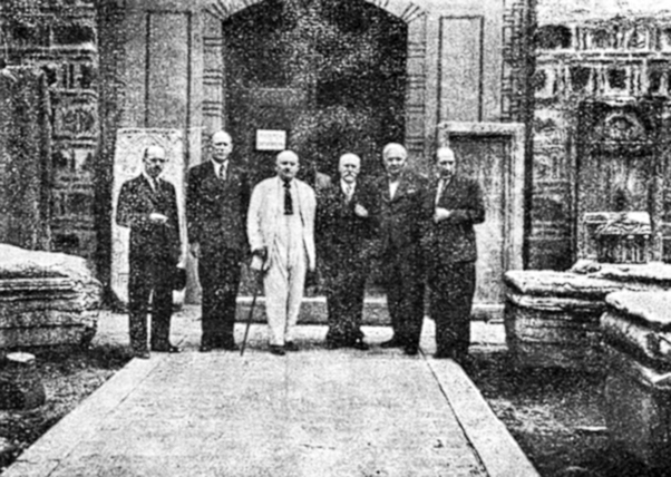 Rafail Popov in white, outside of the Archeological museum in Sofia.